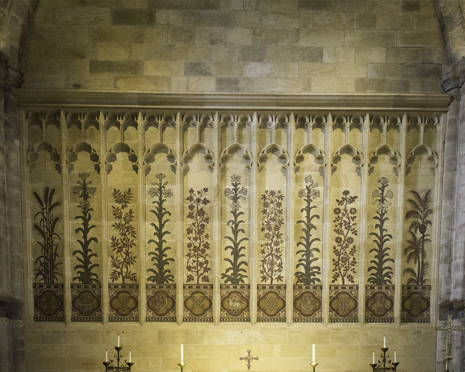 Painted wall forming the backdrop to the altar in the priory church of St Mary and St Cuthbert, Bolton Abbey, North Yorkshire